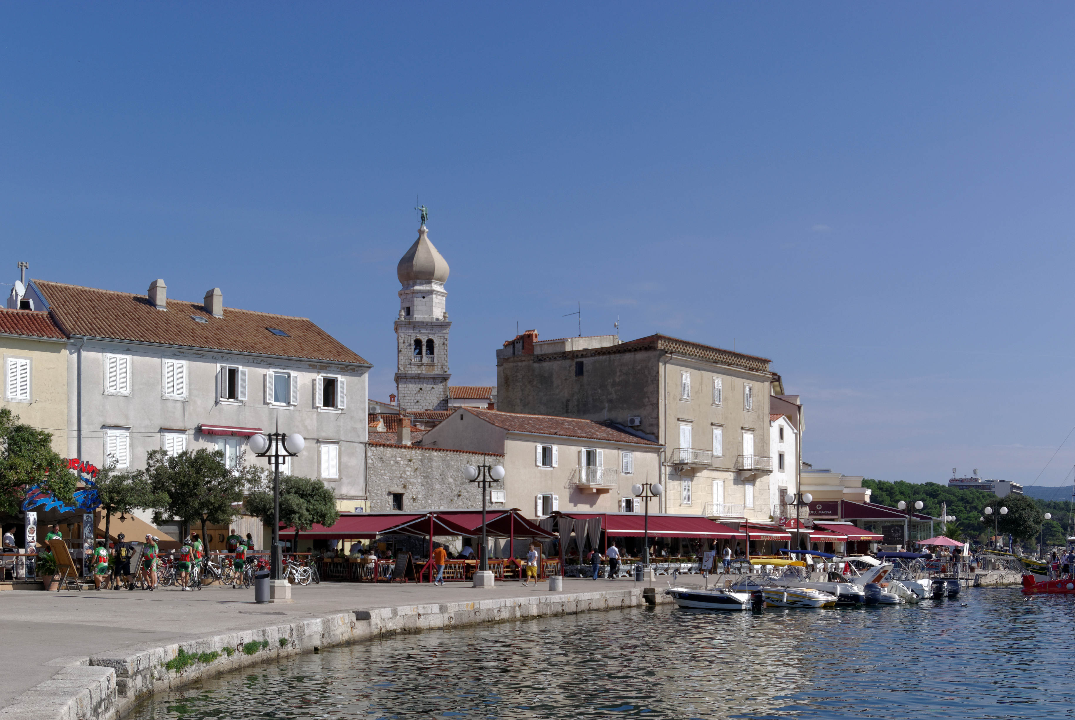 Croatia, Krk, harbour promenade